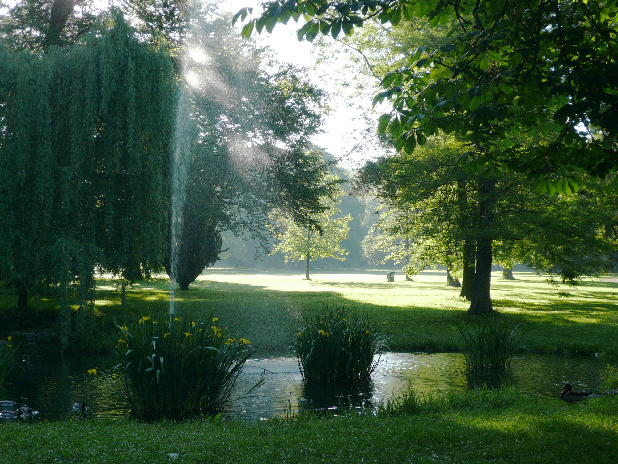 Parc Schillerwiesen at Goettingen